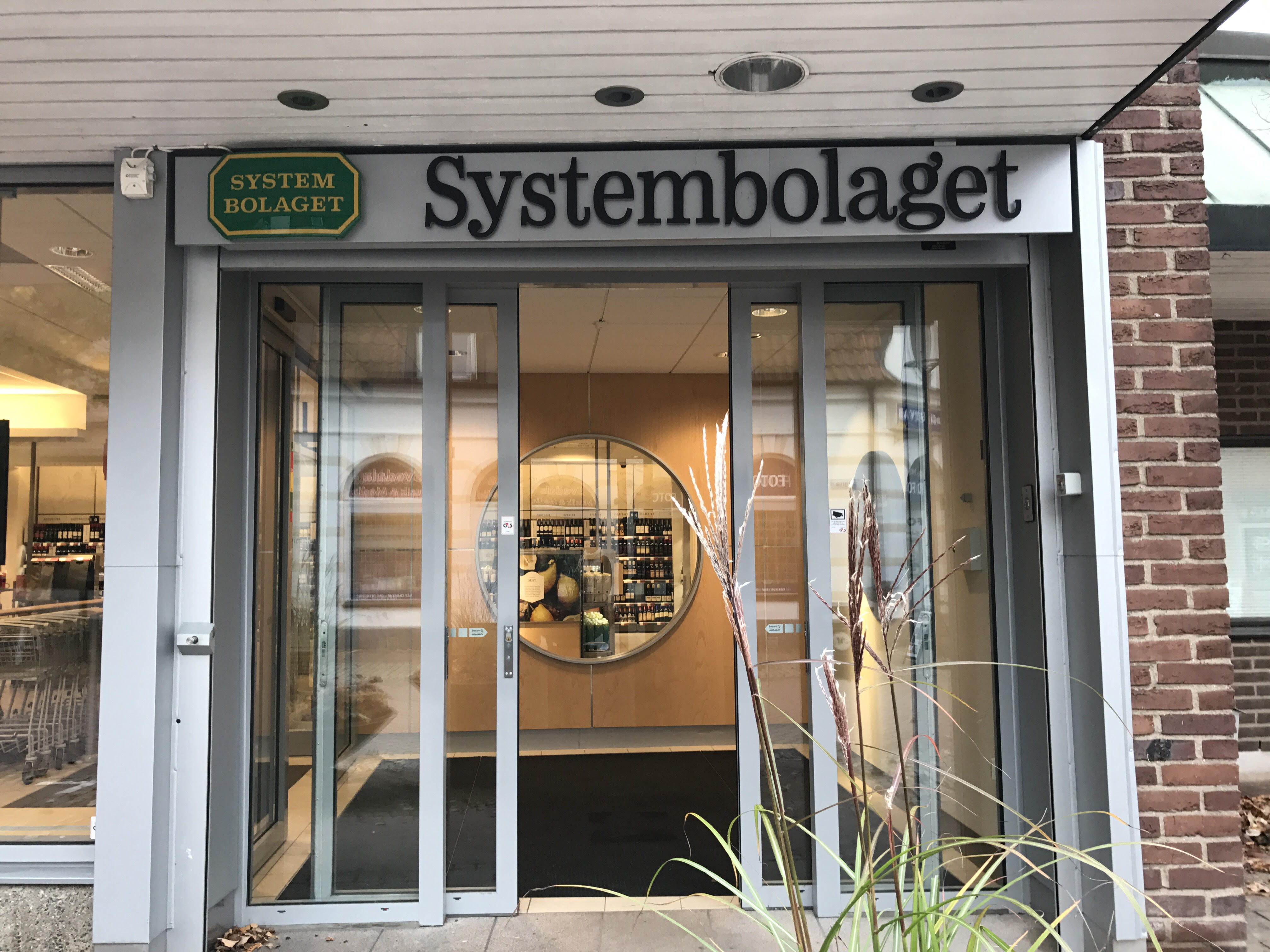 The swedish monopoly for selling alcohol